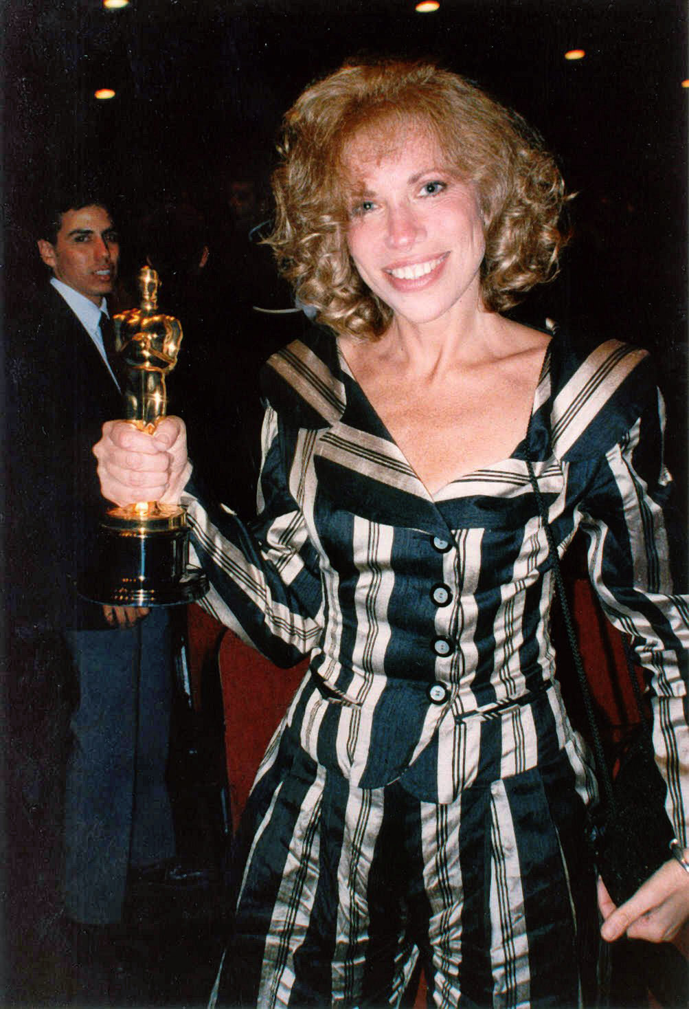 Photo of Carly Simon at the 1989 Academy Awards.